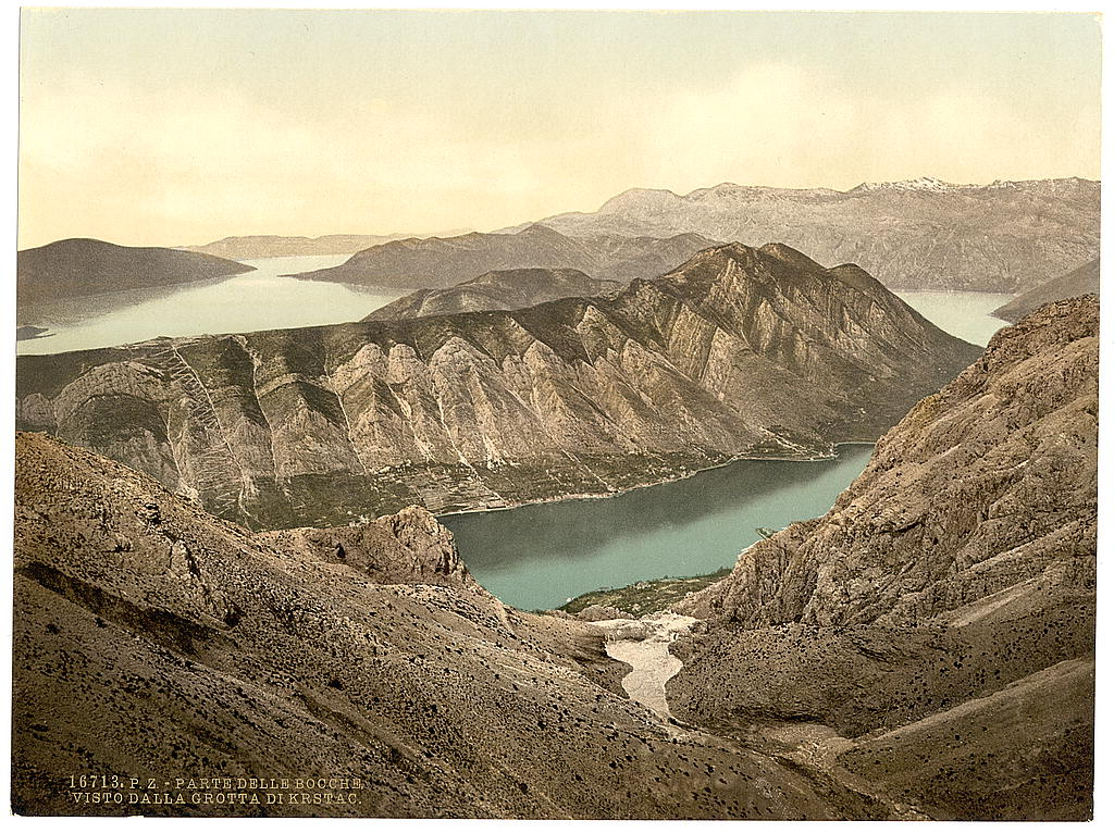 Cattaro, view of the gulf from Krstac Grotto, Dalmatia, Austro-Hungary, early 20th century